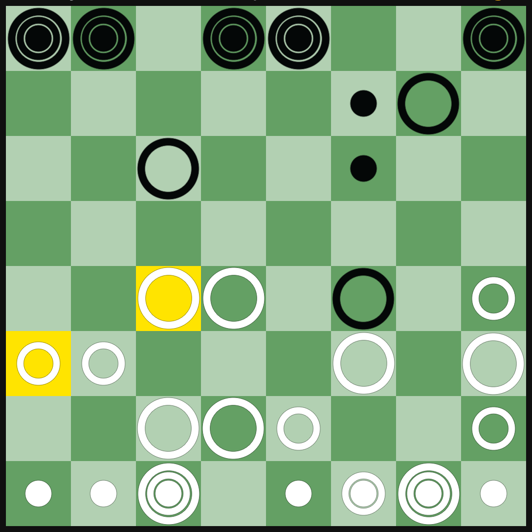 Turnover Vhess game board.